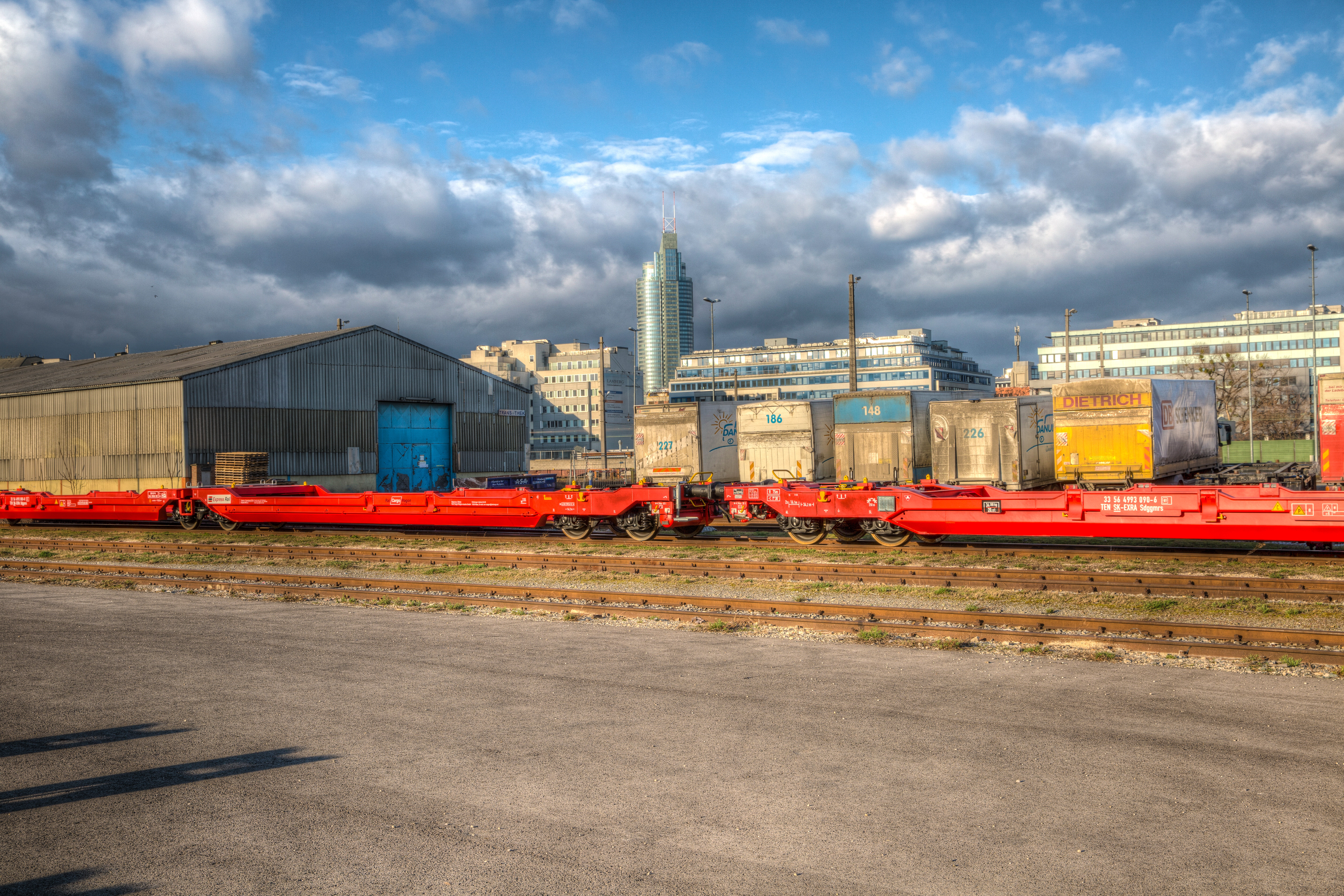 The Northwest Railway Station in Brigittenau, the XX. district of Vienna / Austria / EU. Evening, rain clouds just before the rain. In the middle of the picture red railway wagons. In the foreground a container railway wagons without fright. The place in the foreground belongs to Lagerstraße 2, the trucks park in Lagerstraße 3.